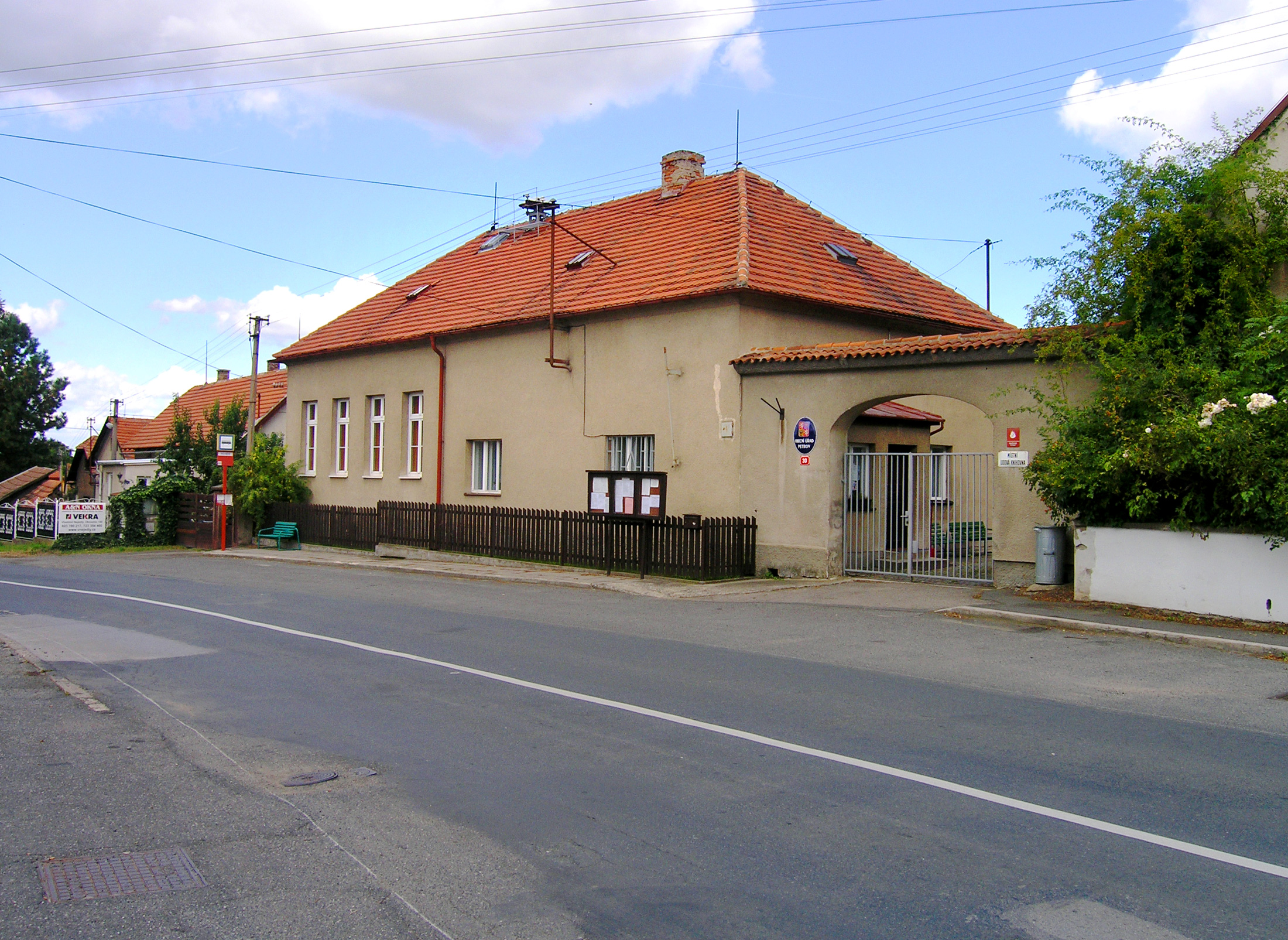 Municipally office in Petrov, Czech Republic